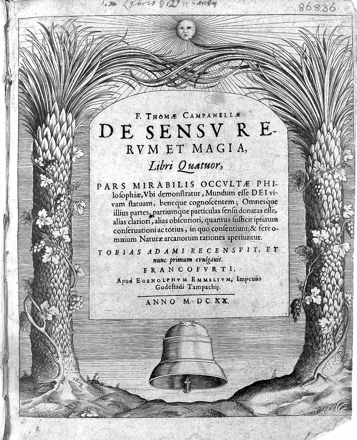 Rare Books Keywords: Tommaso Campanella